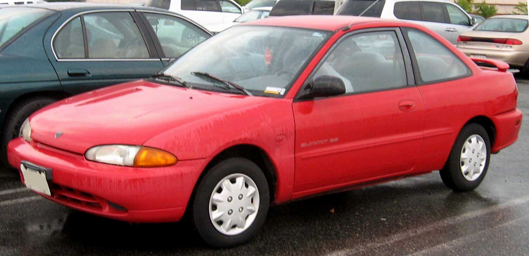 1993-1996 Eagle Summit photographed in Waldorf, Maryland, USA.